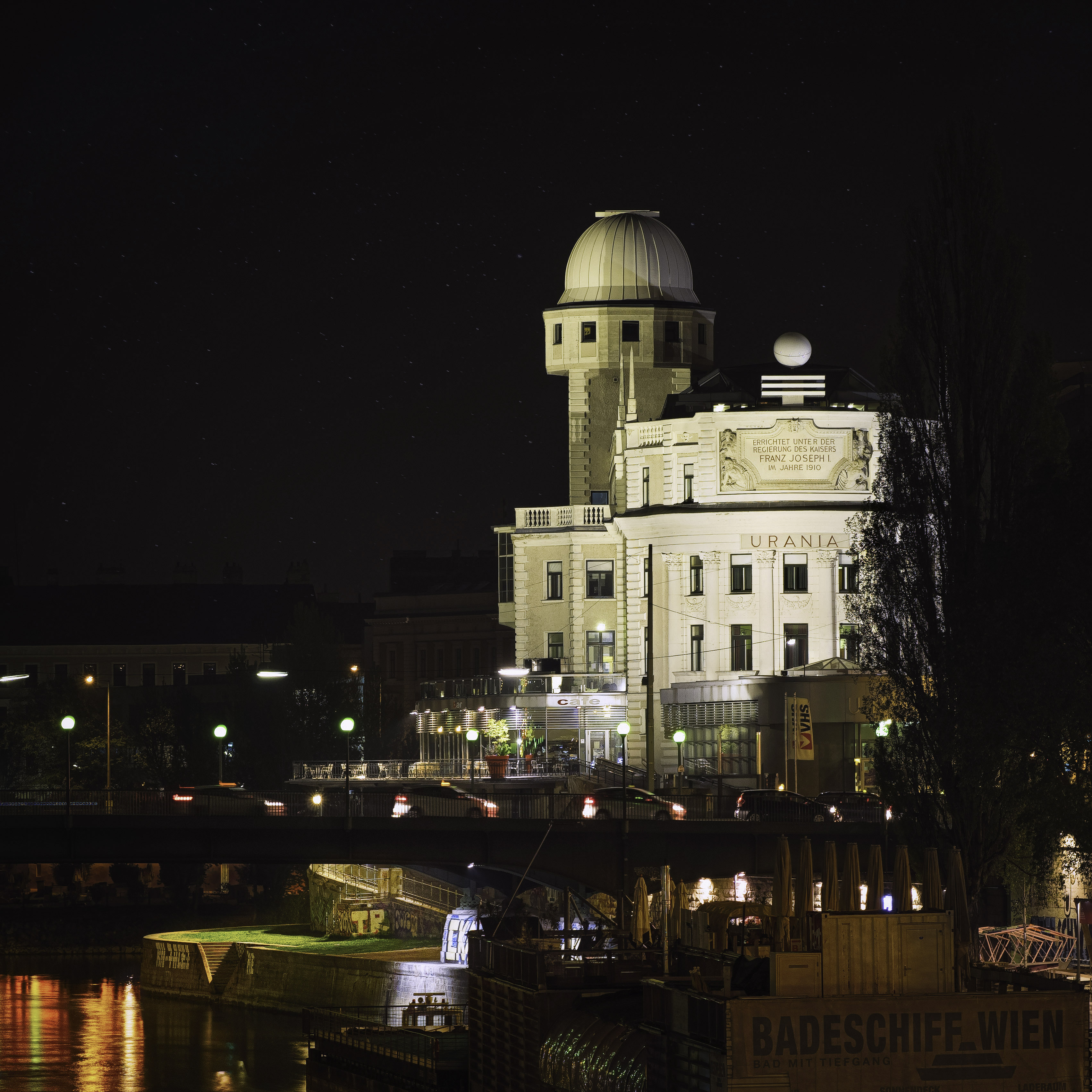 Urania (Vienna) at night